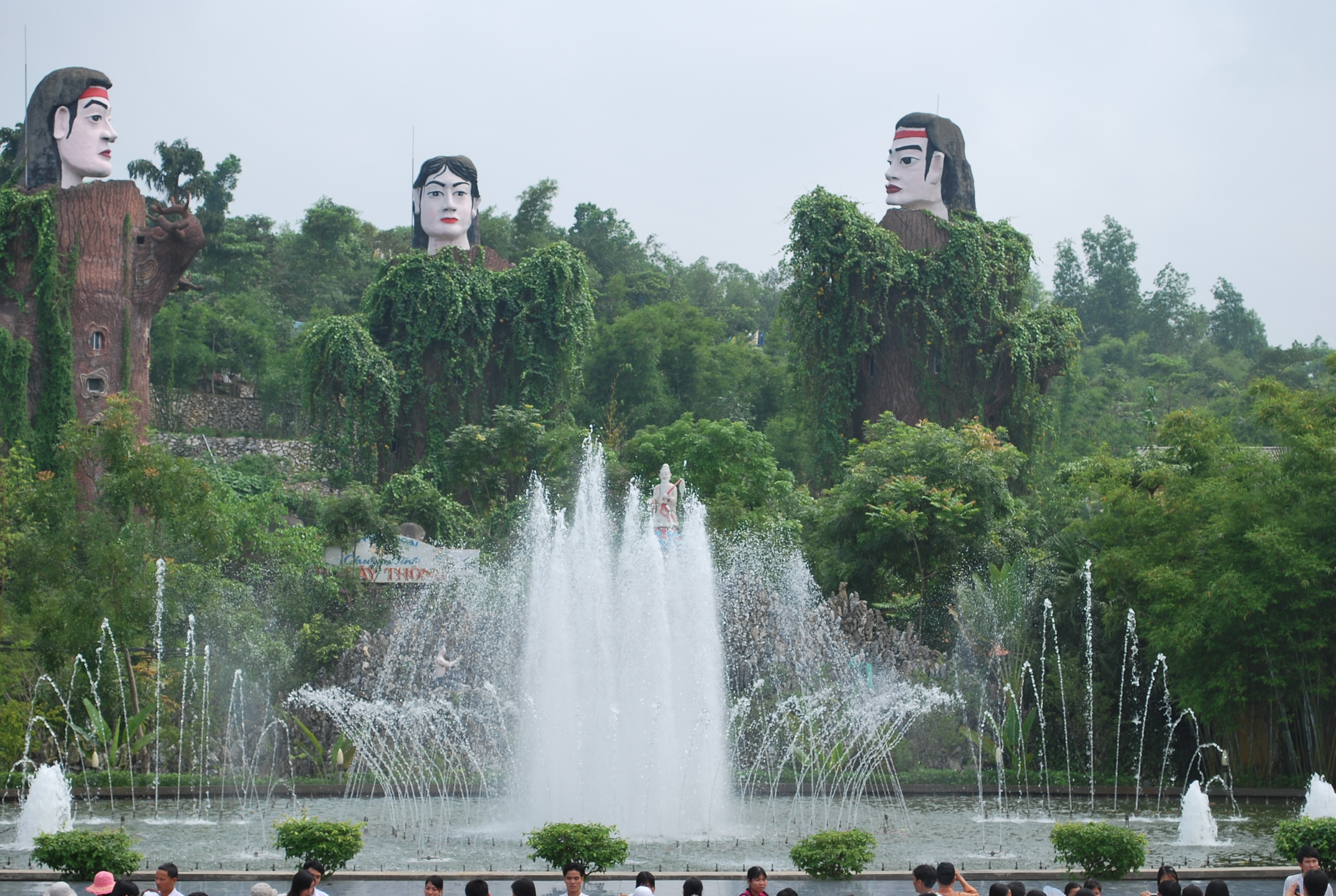 Nui Coc Lake, Vietnam